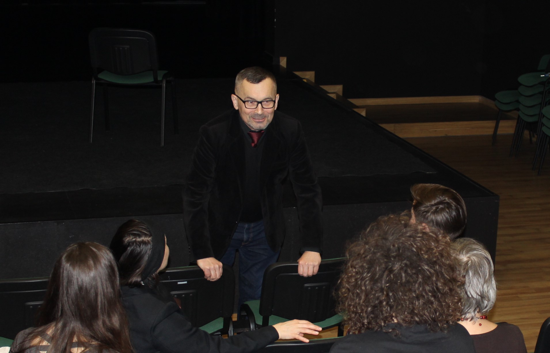 Witold Kopeć giving a lecture during the workshops on rethoric, 2019.